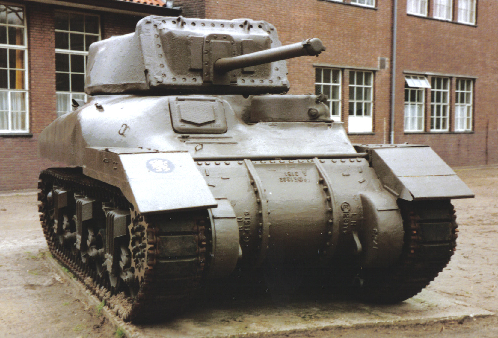 RAM tank at Cavalry Museum Amersfoort